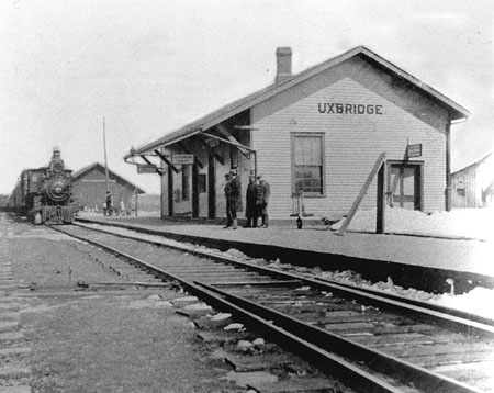 The first Uxbridge Train Station, about 1871 with a train approaching